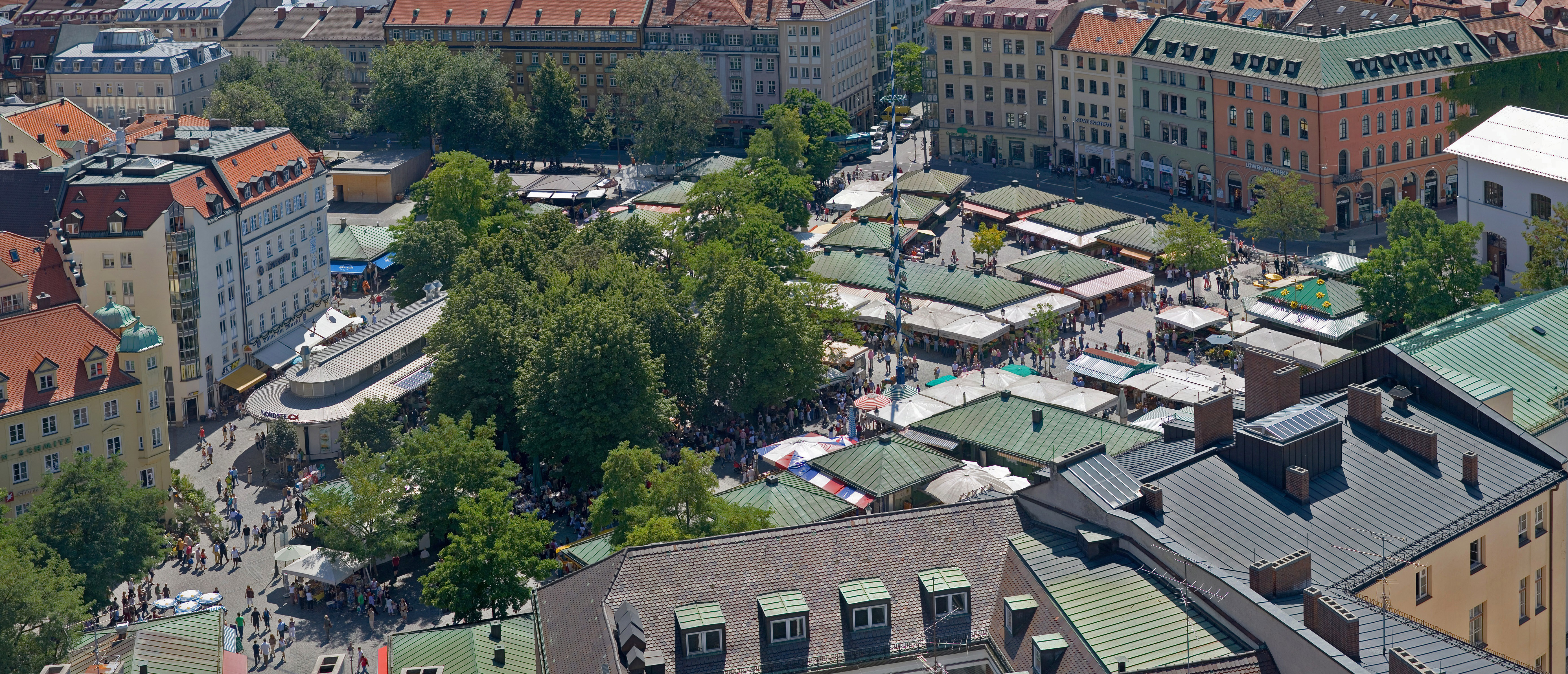 A 12 segment panorama (3x4) of the Viktualienmarkt from Peterskirche in Munich. It was taken by myself with a Canon 5D and 24-105mm f/4L IS lens.